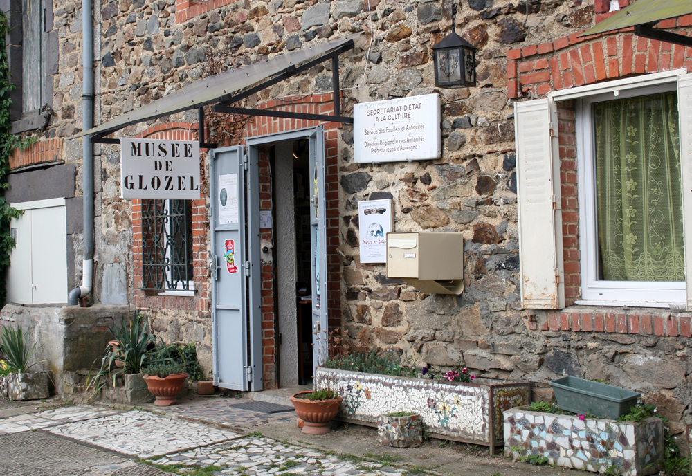 entrance of the Glozel site museum, Ferrières-sur-Sichon, France ; pictures are unfortunately not allowed inside...